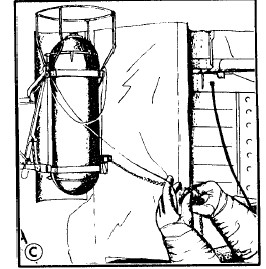 ALSEP Fuel cask deployment